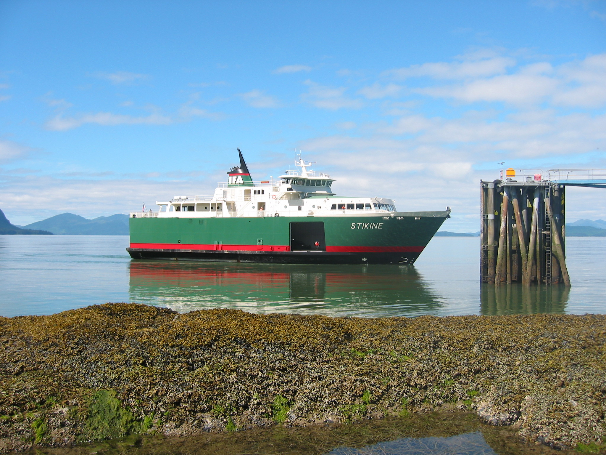 Inter-island Ferry Authority ferry M/V Stikine arriving in Wrangell, Alaska. Type: Ferry (RORO) Built by Dakota Creek, Anacortes, United States Yard No: 48 Date of completion: 04.06 Length overall: 60.4 m Beam: 15.5 m Tons: 2334